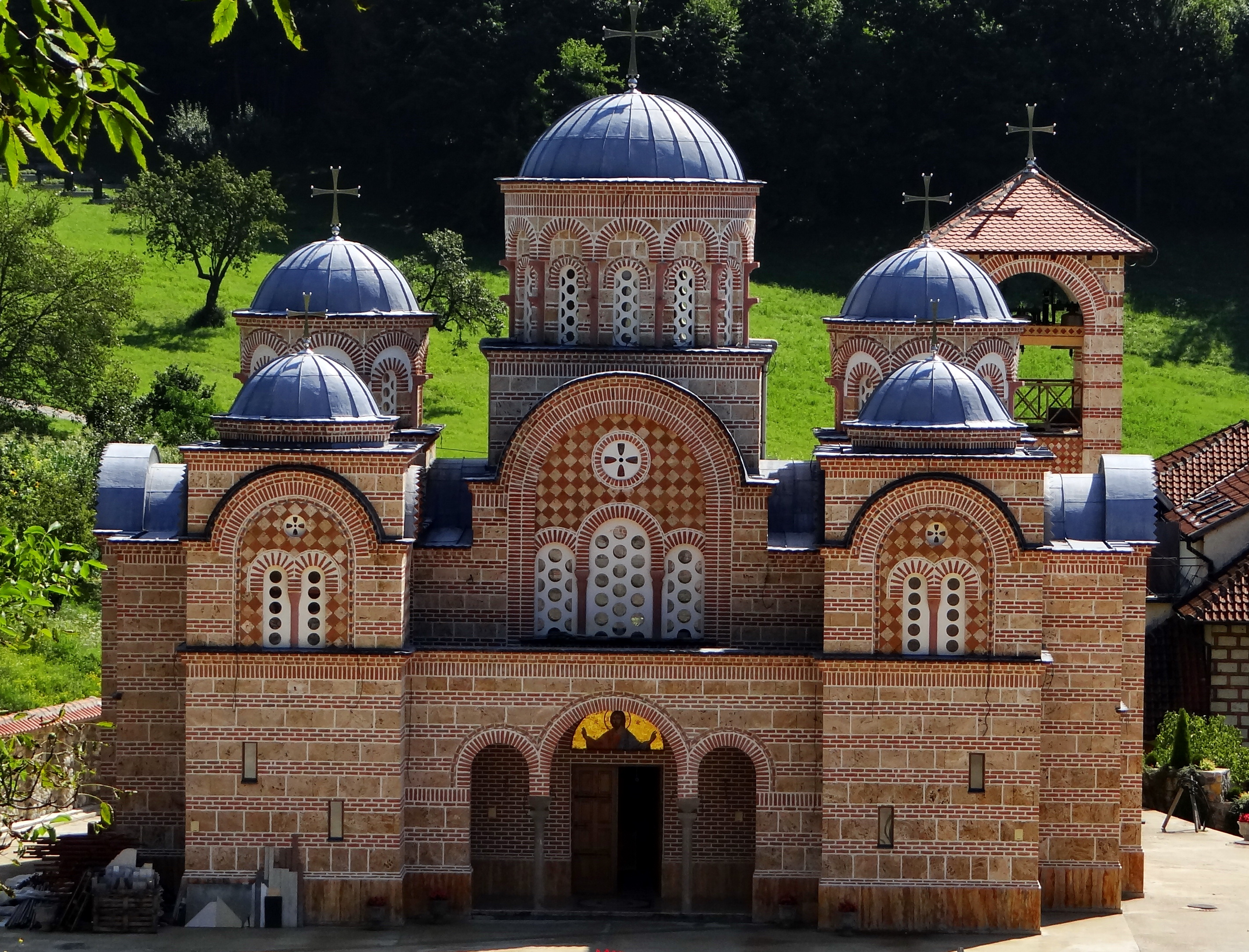 The three-altar church of Venerable Father Justin of Ćelije at Ćelije Monastery..